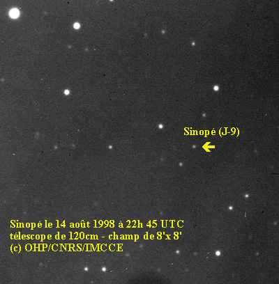 Sinope (Jupiter IX) photographed by the OHP (Observatoire de Haute-Provence) on 14 August 1998 at 22h45 UTC. Jupiter is off frame.